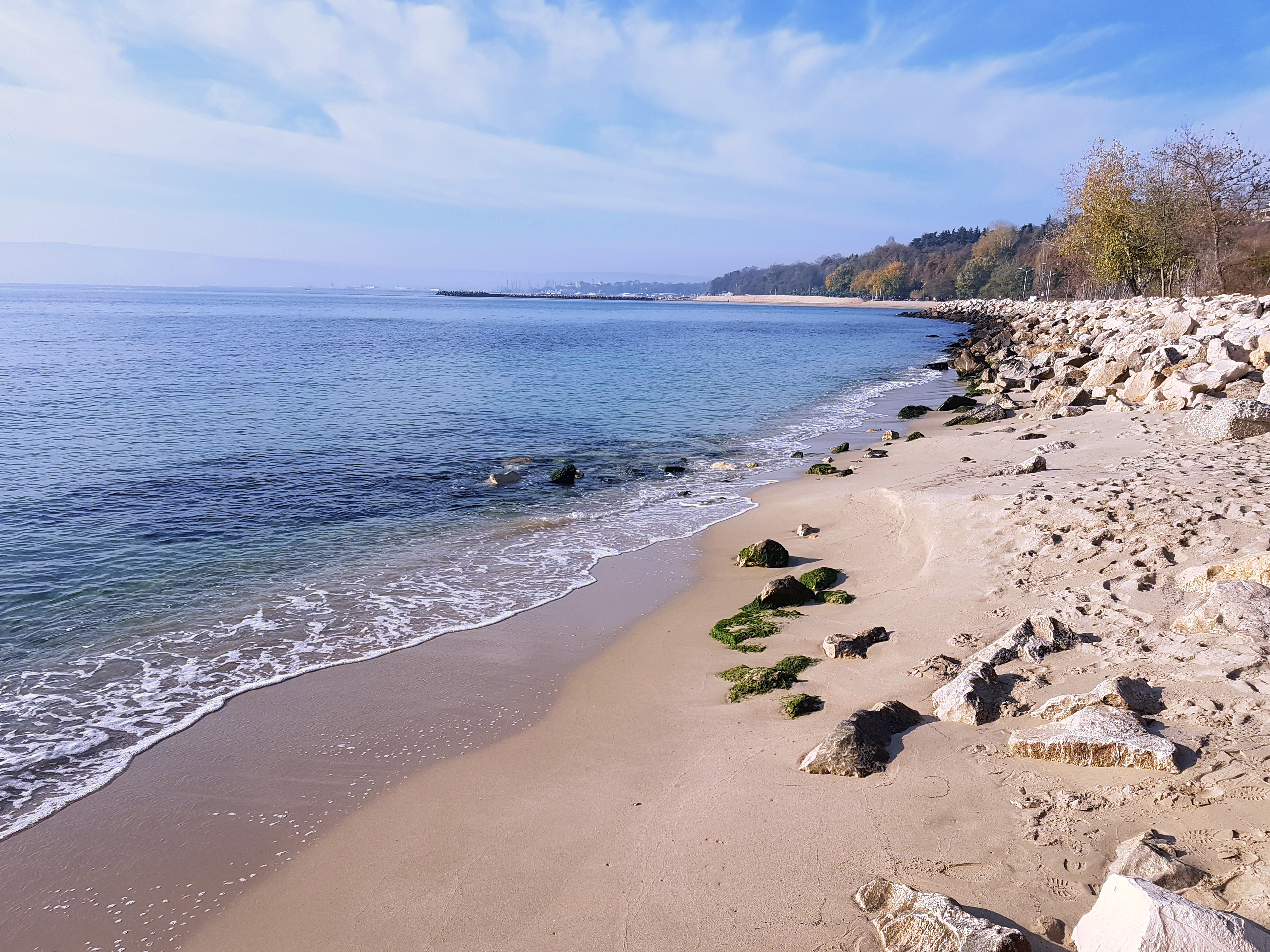 Sea Garden (Varna) 2018-12-02